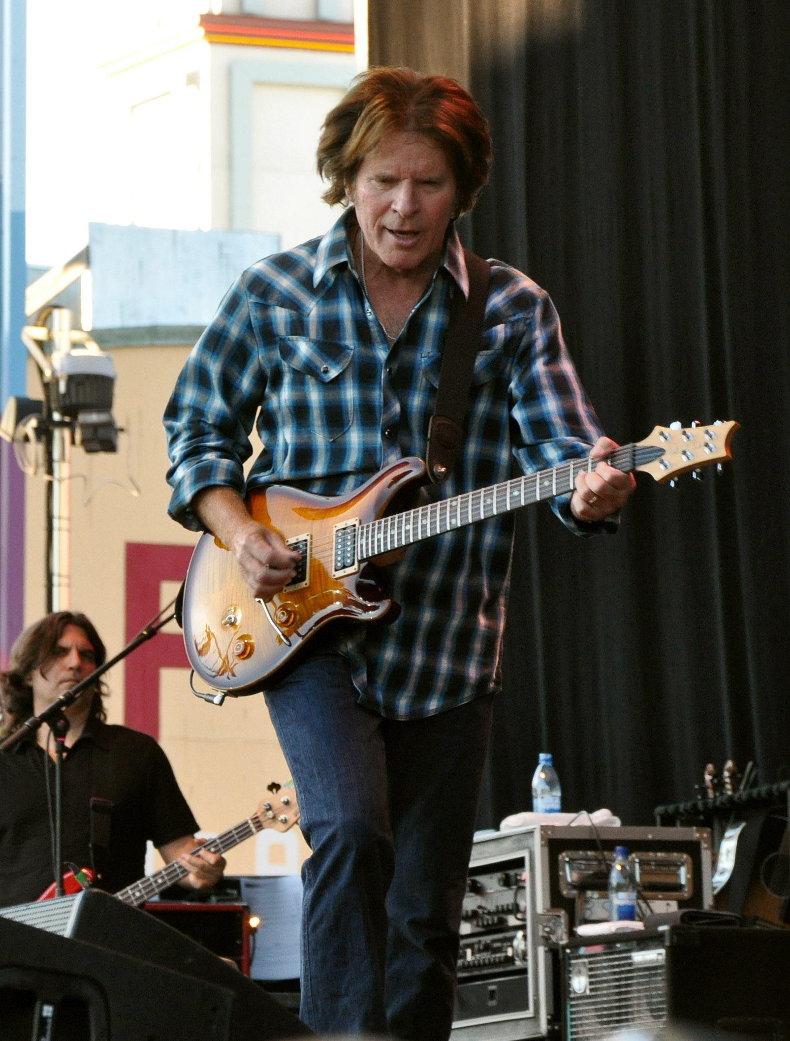 John Fogerty concert at Grona Lund, Stockholm, Sweden